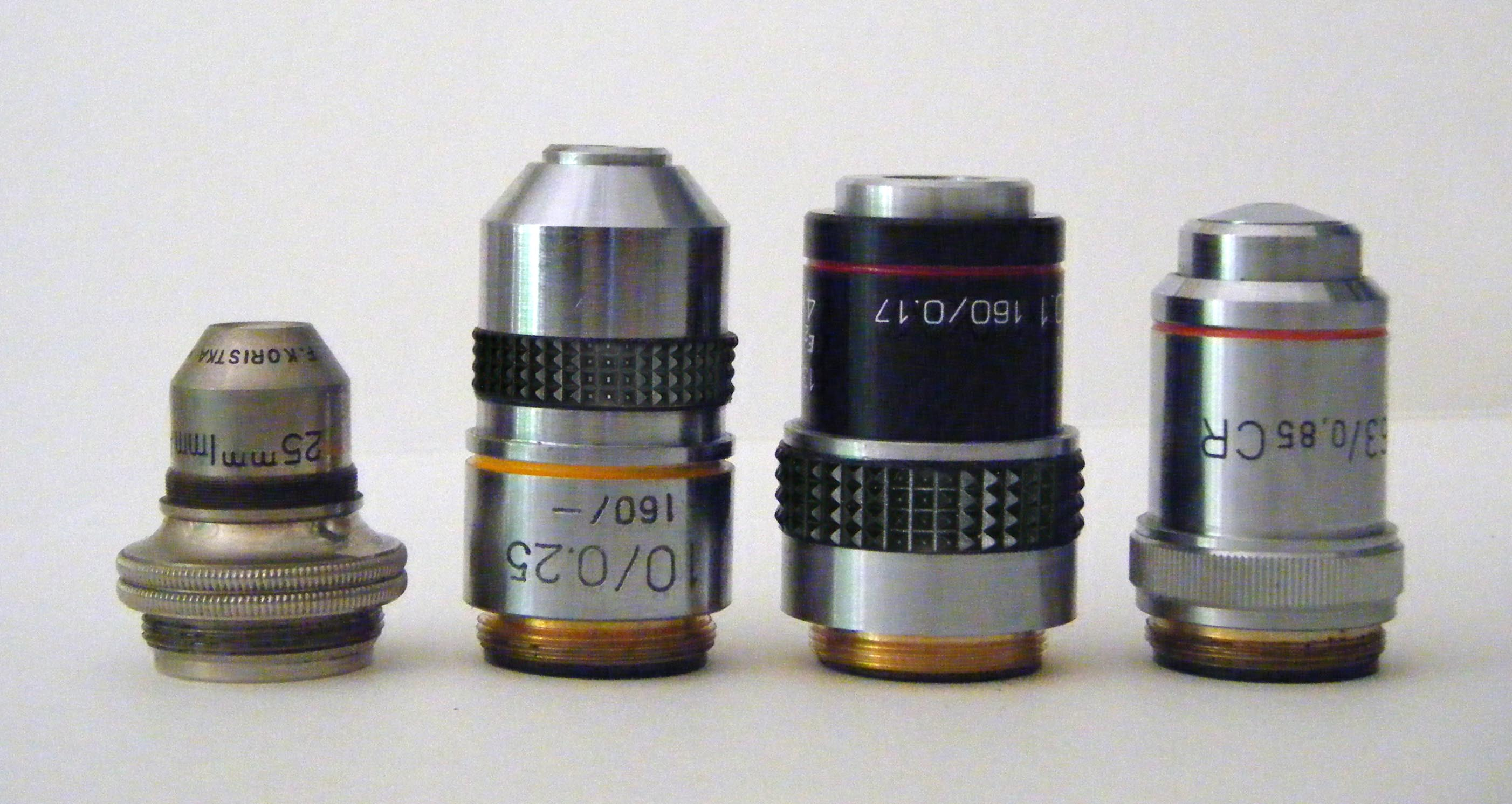 Objectives for microscope